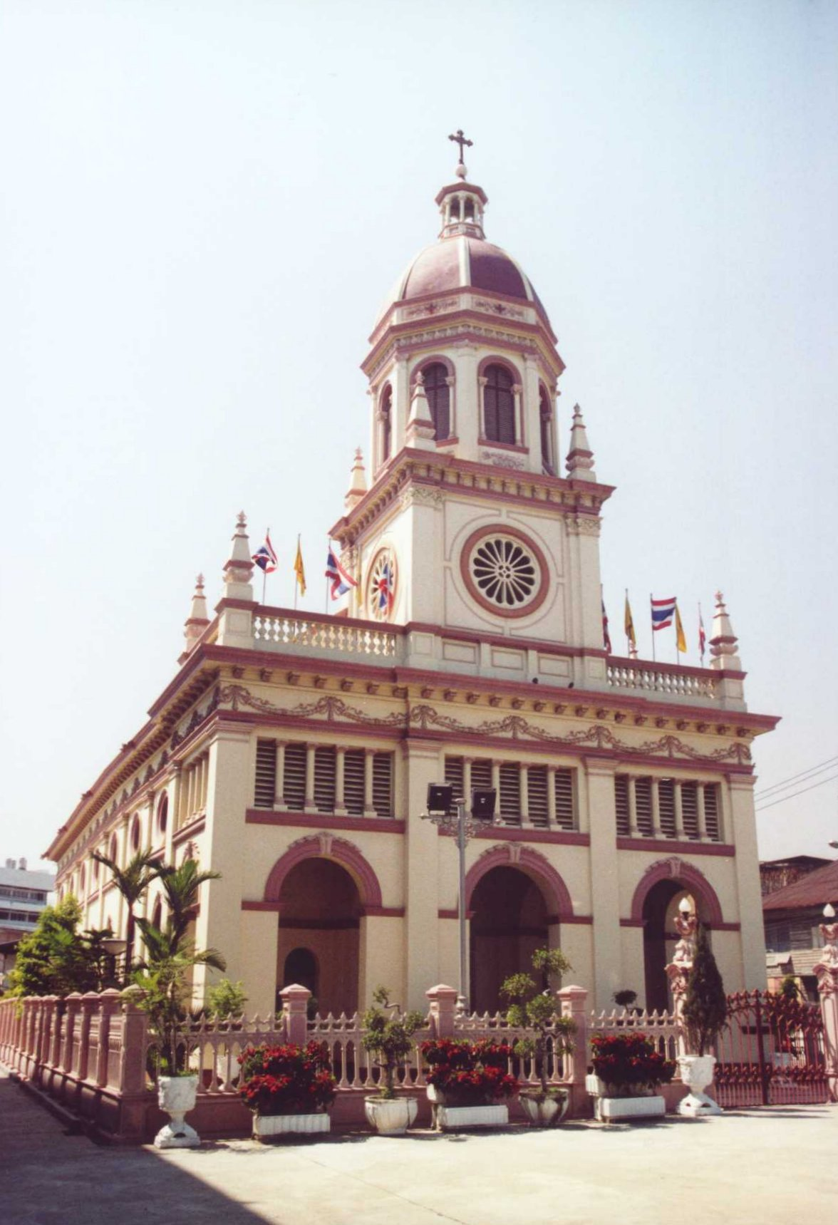 Santa Cruz church, Bangkok Photo taken by User:Ahoerstemeier in January 2006.